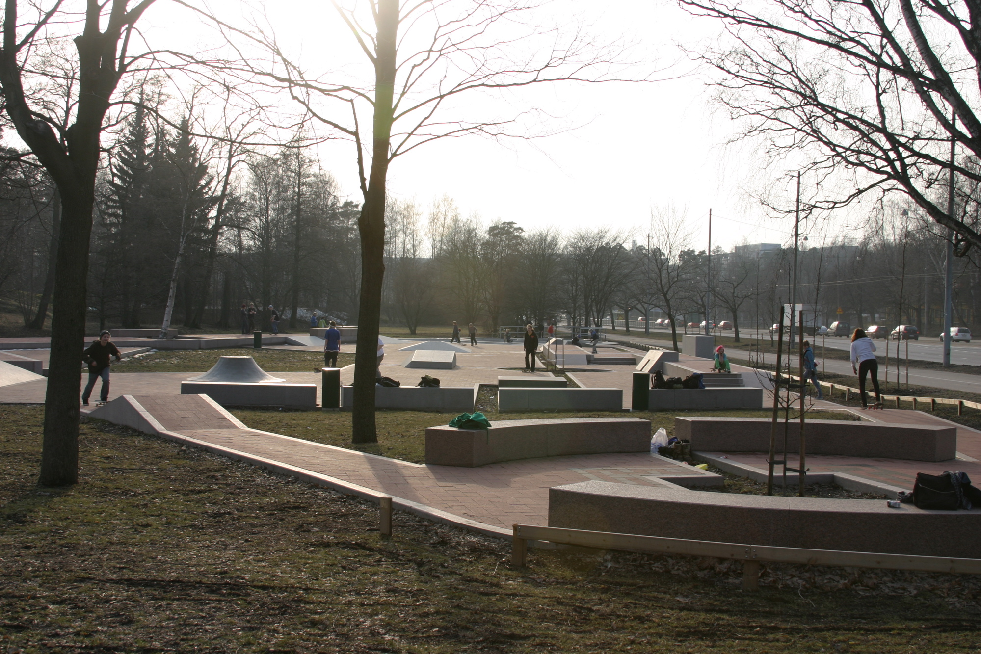 Overview on Micropolis Skatepark on Nordenskiöldinkatu 20 in Helsinki, Finland